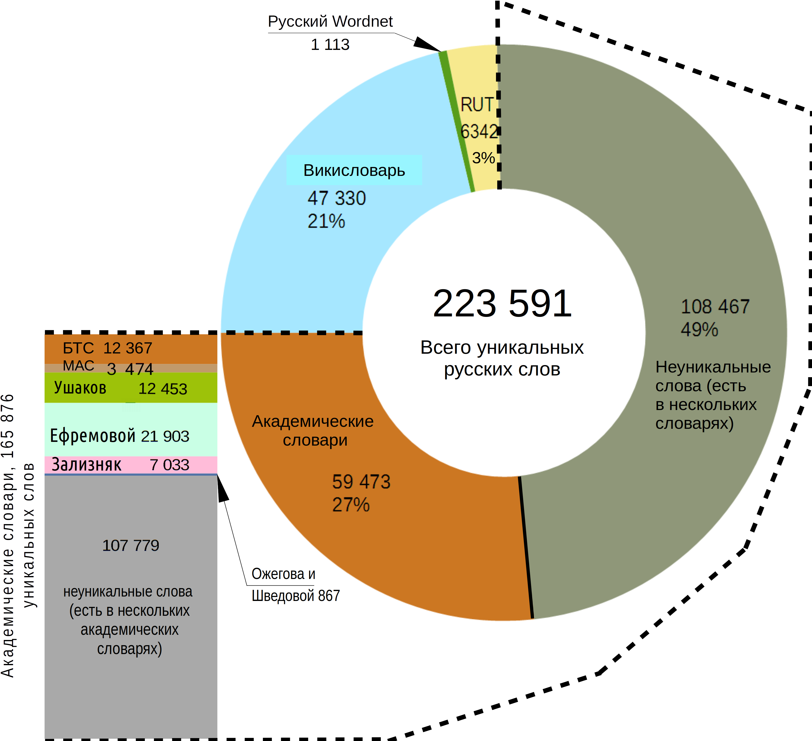 Number of unique words in traditional Russian dictionaries (vertical stripe) and in all Russian dictionaries (pie chart), 2015.